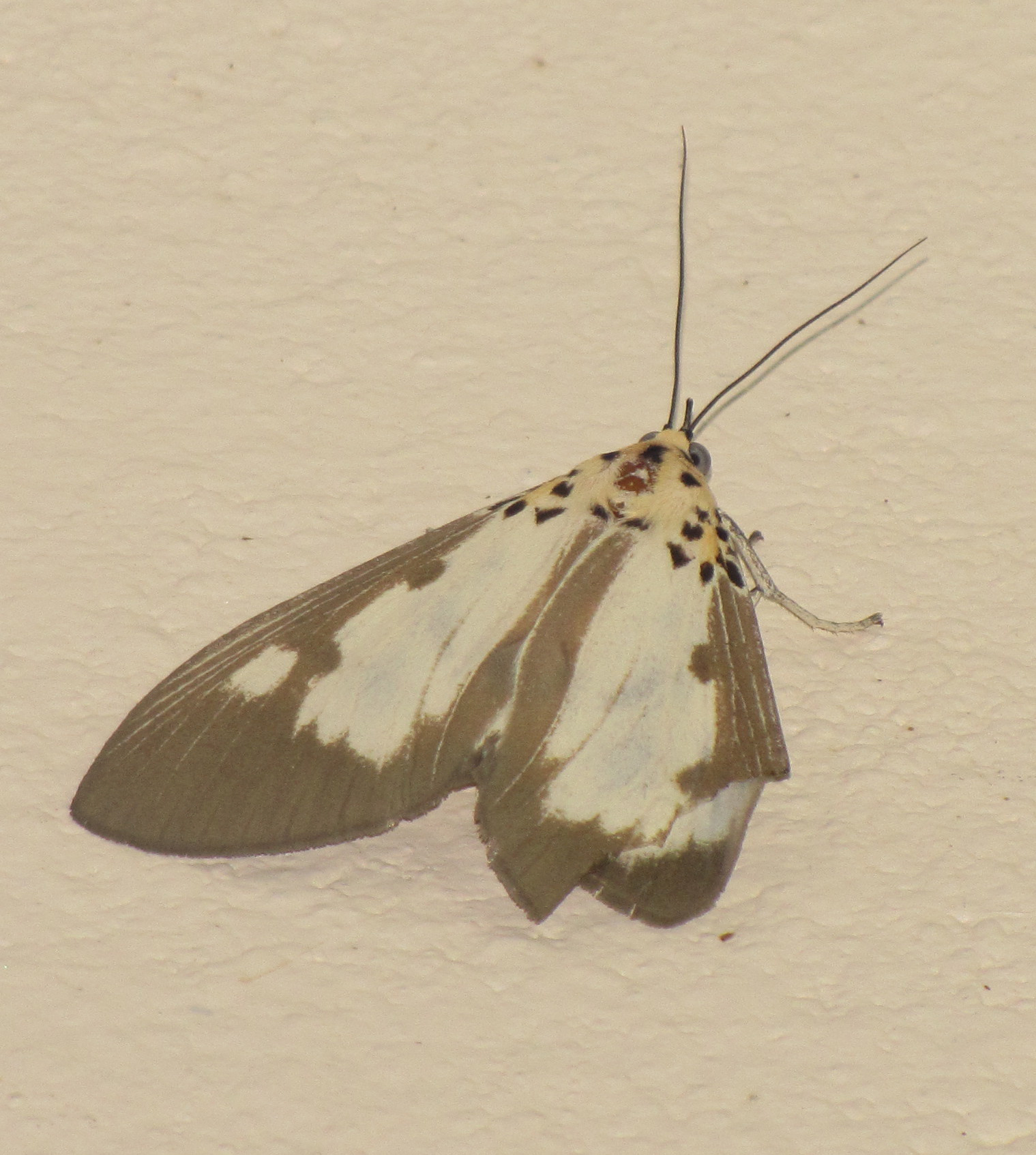 Asota plana albifera (Walker, 1854) Sub species of 'Asota plana'. Seen in India, Indonesia, Japan, Malaysia, Micronesia, Papua New Guinea, Philippines, Sikkim, Singapore, Taiwan. Taken from Mangalore.